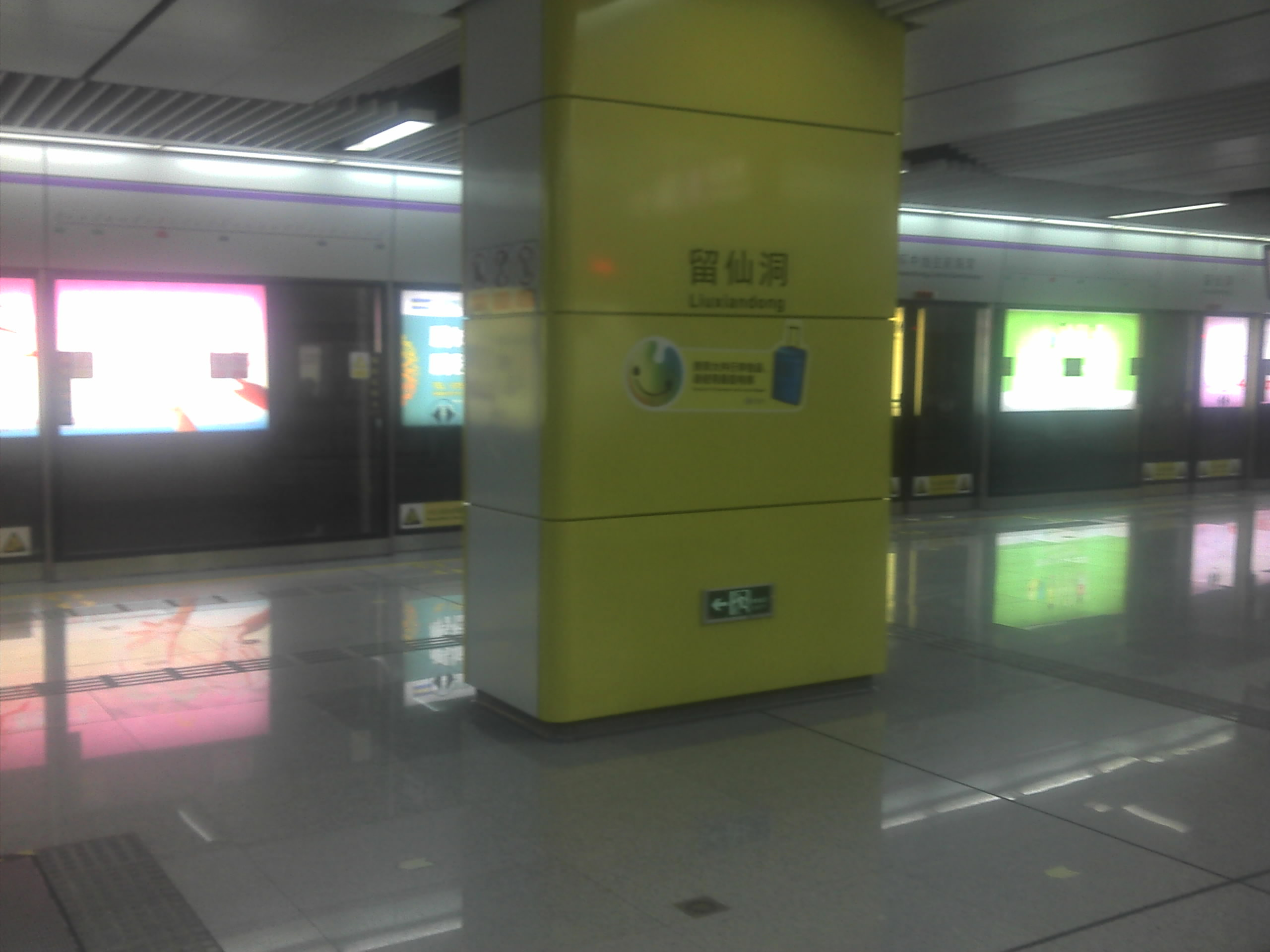 This photo 留仙洞站 was taken as Nov 19, 2011.